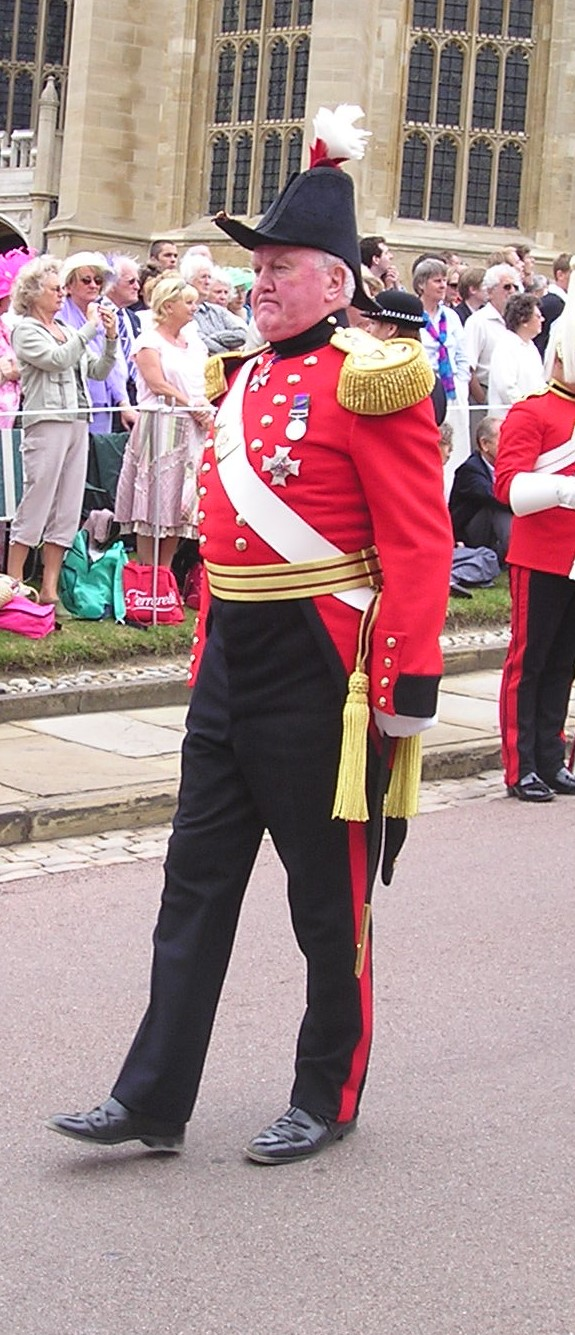 Major General Sir Michael Hobbs, Governor of the Military Knights of Windsor, in procession to St George's Chapel, Windsor Castle for the annual service of the Order of the Garter.